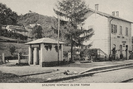 Gornate Olona railway station